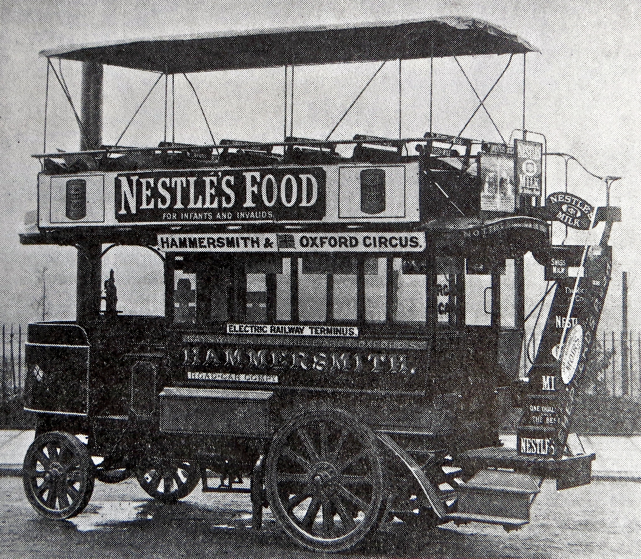 used for some weeks from 17 March 1902 by London Road-Car Co Ltd